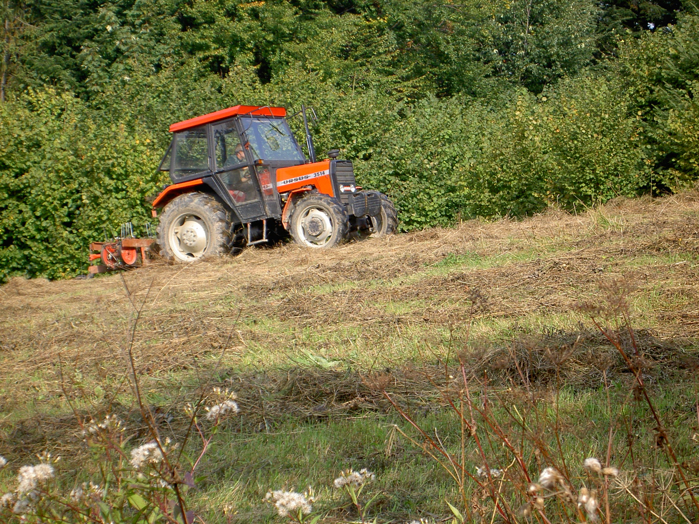 An Ursus 3514 tractor with a side delivery belt rake in Pieninski National Park. Photo taken by me in september 2006